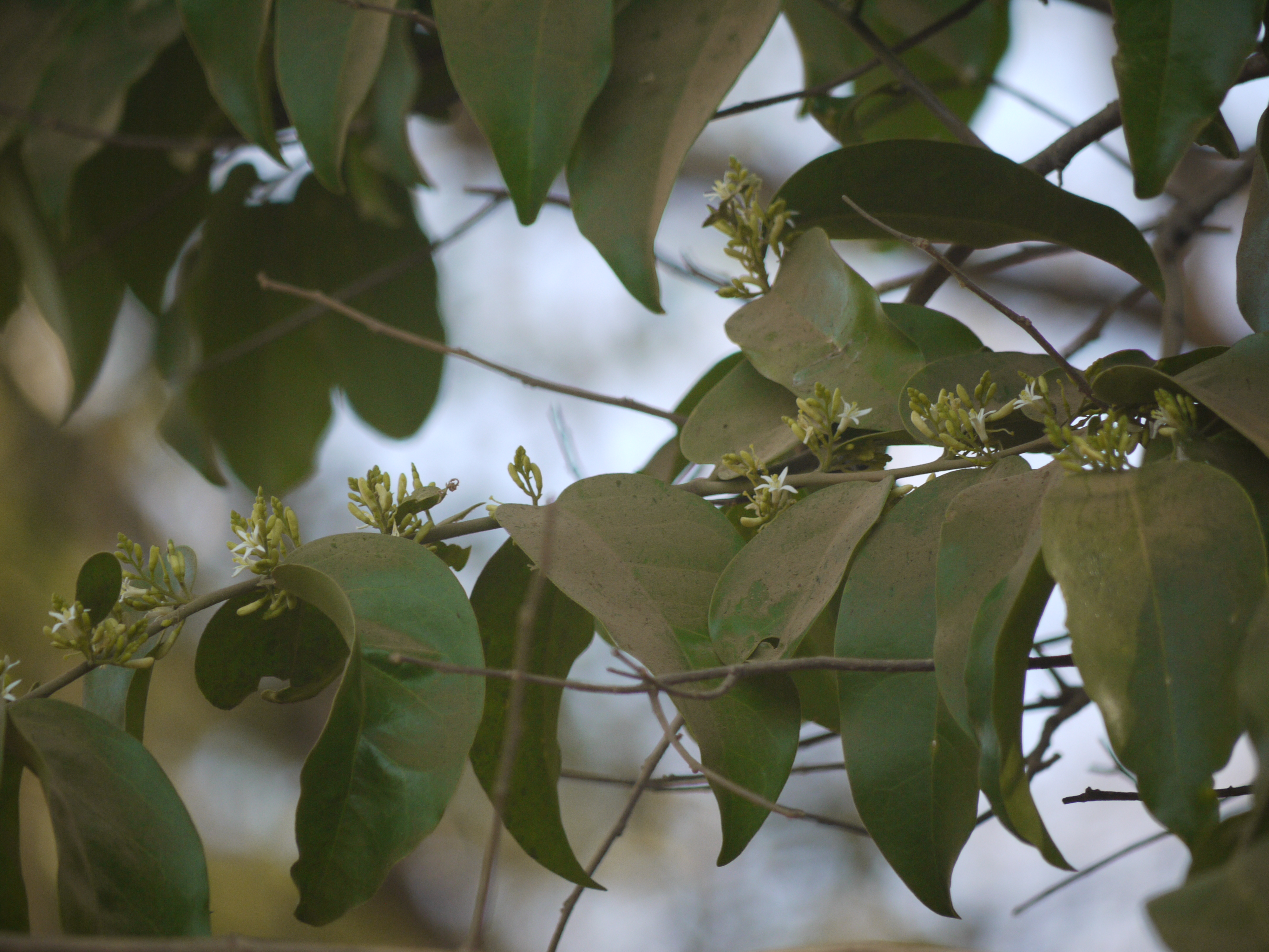 Olacaceae (sour plum family) » Olax imbricata Roxb. OH-laks -- smelling; referring to plants' odorous nature ... A Latin Dictionary im-brih-KAY-tuh -- shingled, overlapping ... Dave's Botanary commonly known as: south Asian olax • Marathi: कुकुर्बिट kukurbit Native to: s China, India, Sri Lanka, Myanmar, Thailand, Malaysia, Indonesia, Philippines References: Flowers of India • Flora of China • Further Flowers of Sahyadri by Shrikant Ingalhalikar